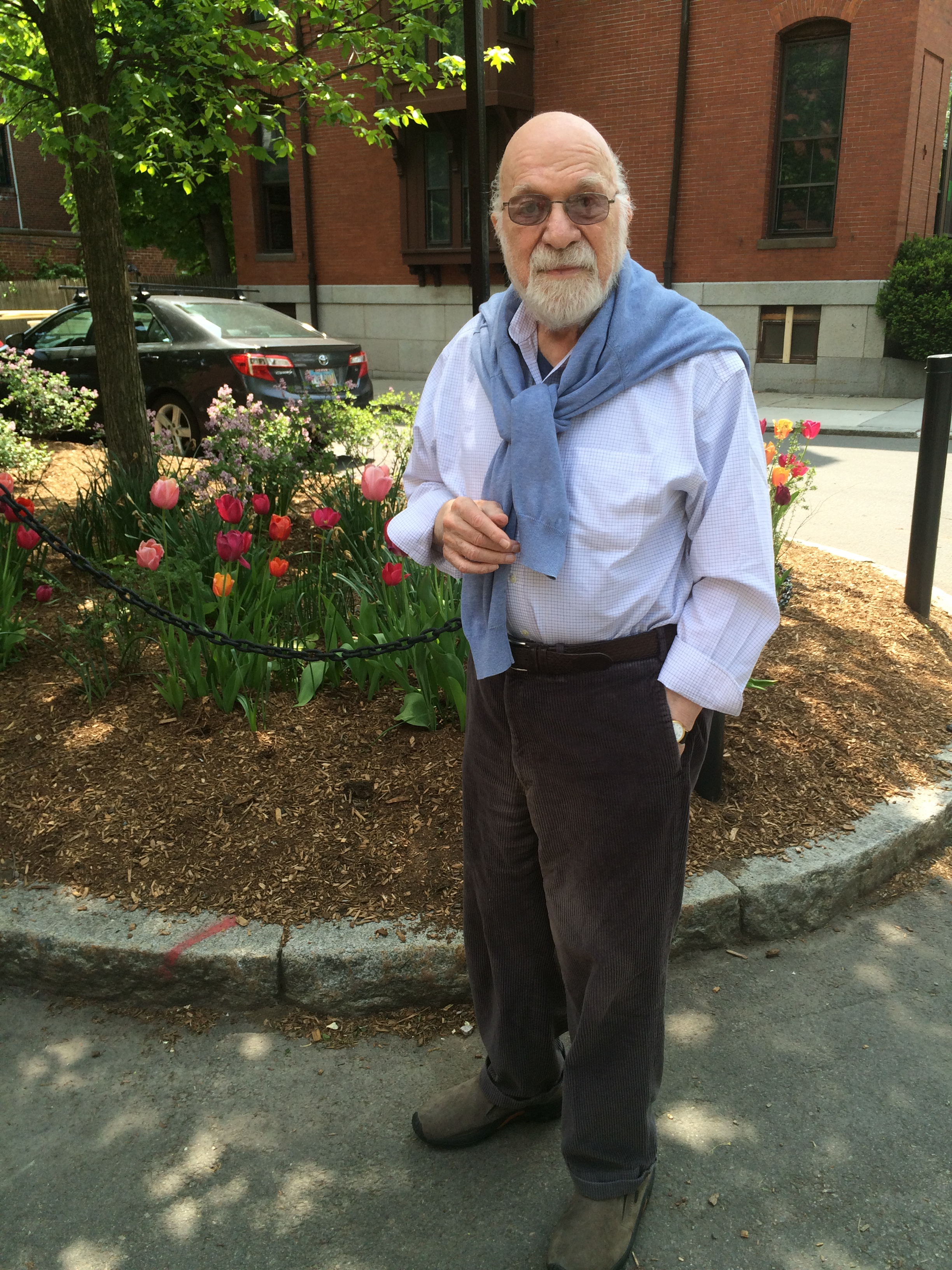 Stanley Cavell in 2016